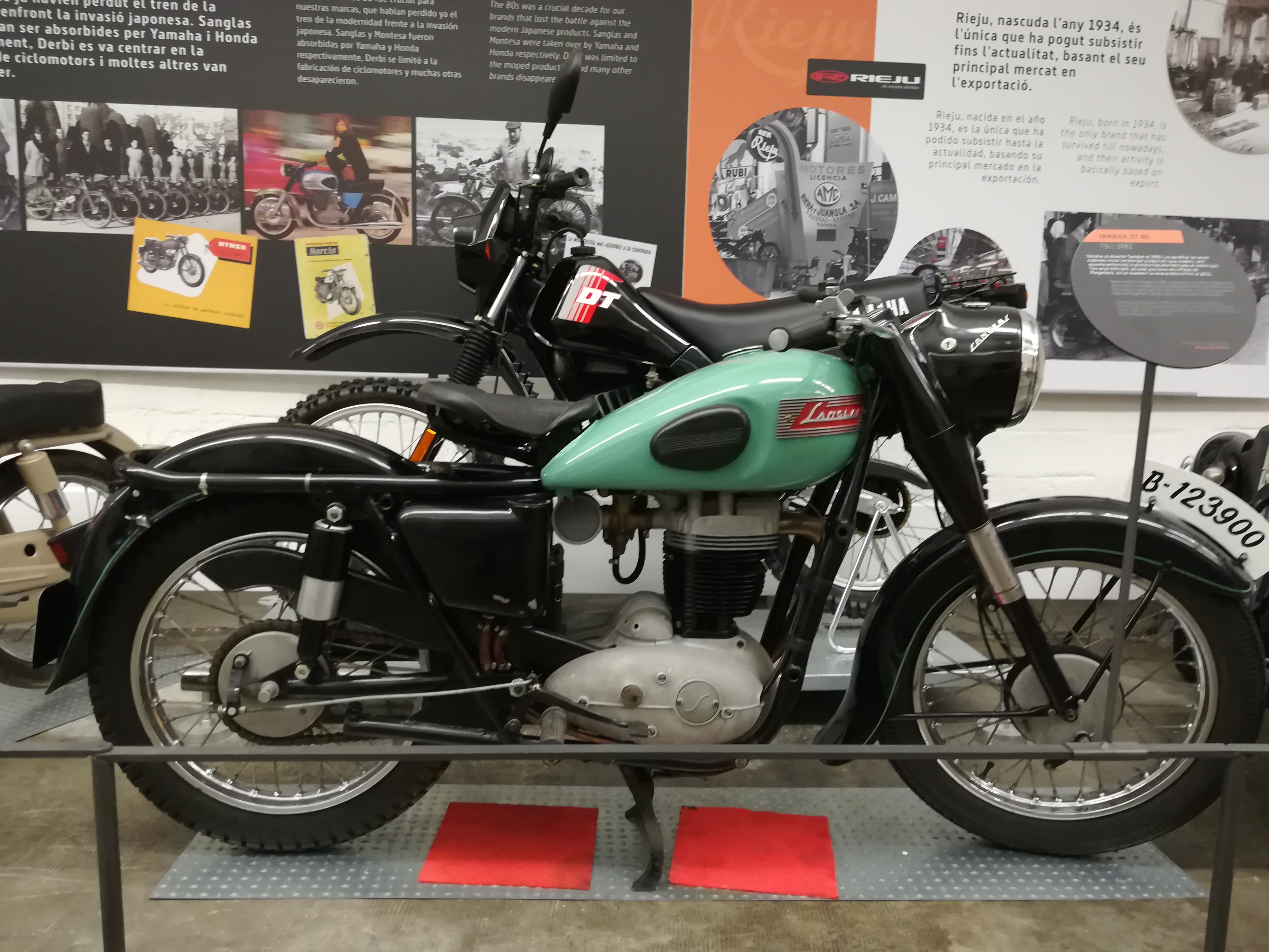 Sanglas 500/2, 1953